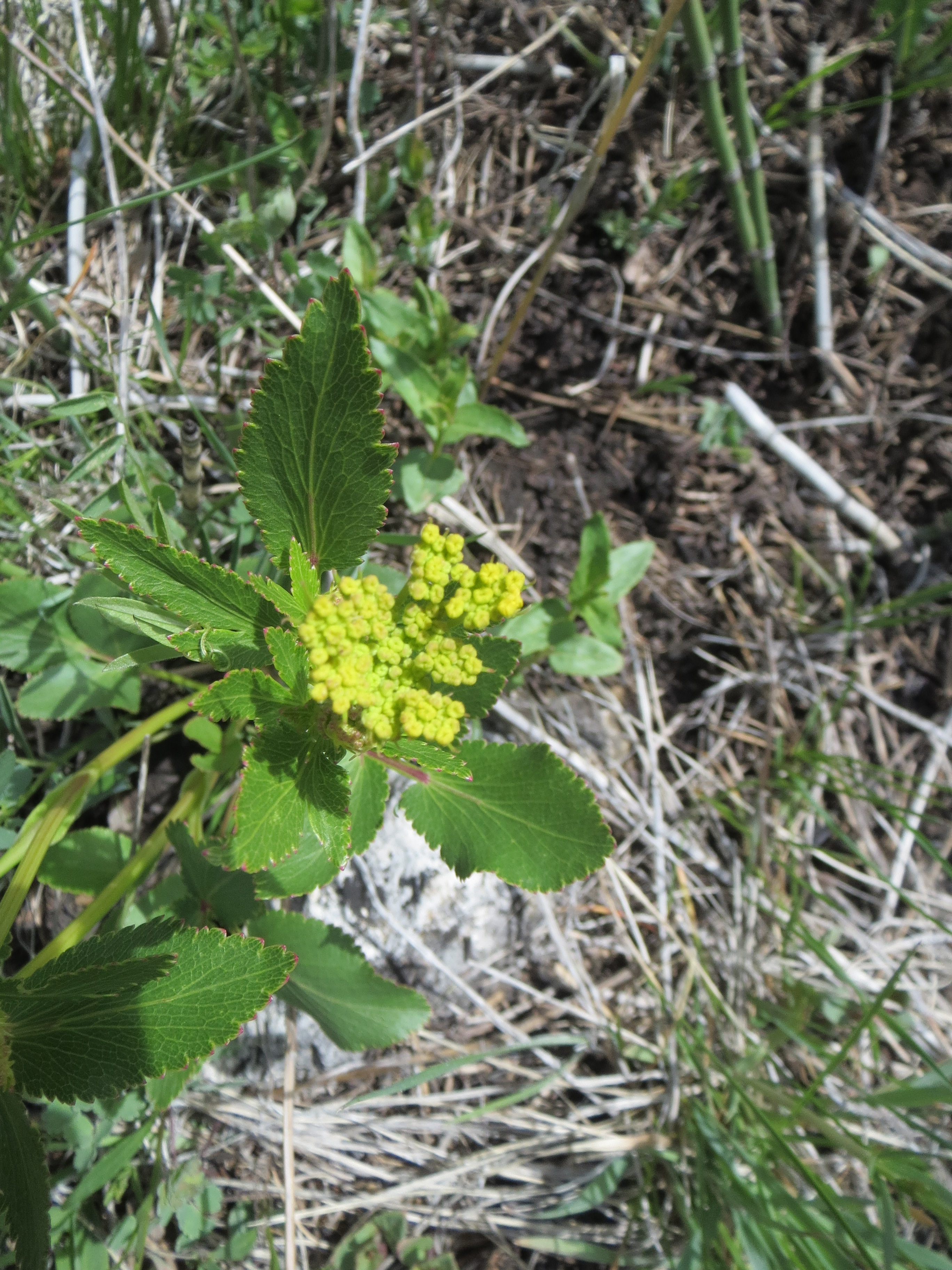 Zizia aptera along South Fork of Castle Creek, South Dakota, USA